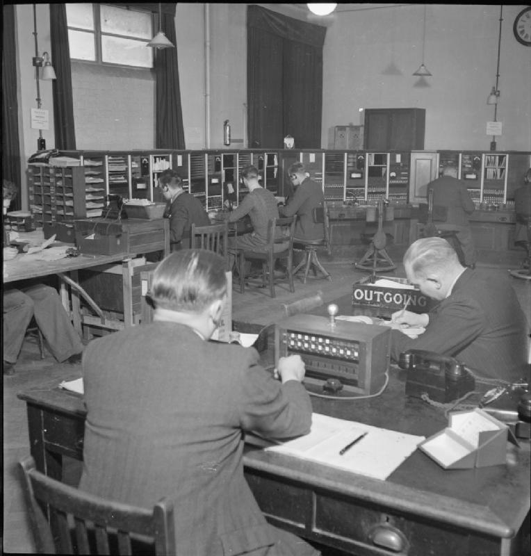 Automatic Telephone Exchange- Communications in Wartime, London, England, UK, 1945 Engineering officers and test clerks at work at the test desk at an automatic telephone exchange in London. According to the original caption, this is where "engineering officers deal with the public on faults and service difficulties. The test clerks can reach any required line by dialling and test the exchange equipment and then the subscriber's circuit. They can remain in circuit while the subscriber dials and observe the point at which a fault condition occurs".